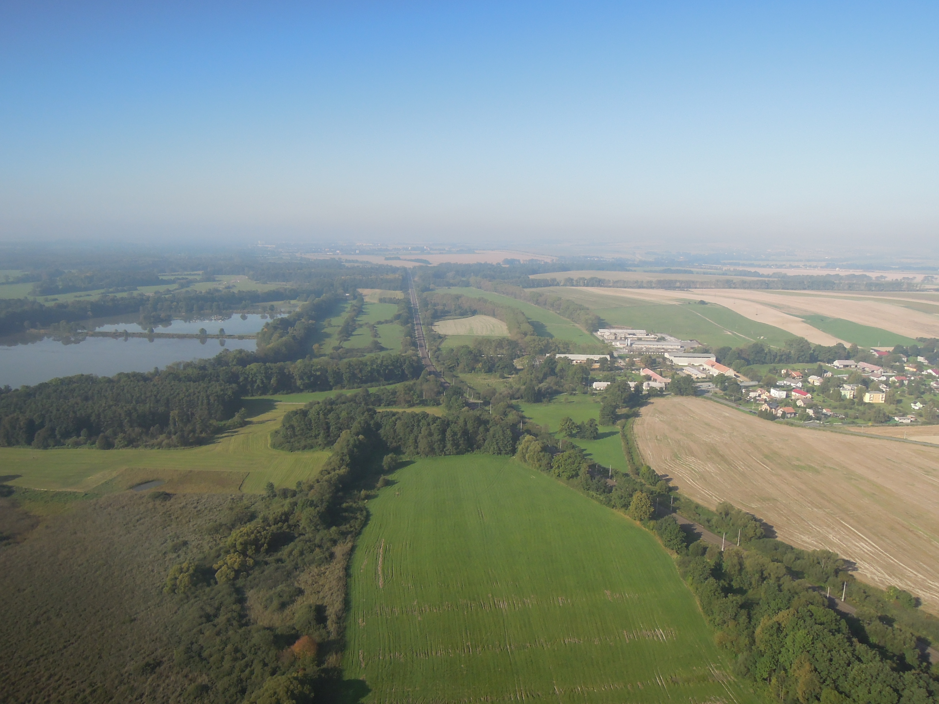 View of Jistebník and CHKO Poodří, Moravian–Silesian Region, Czech Republic; photo was taken from Robinson R44 helicopter